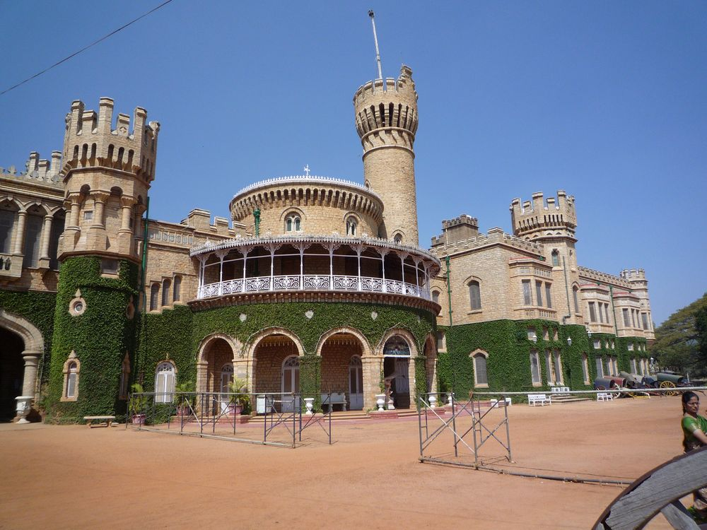 Bangalore Palace, main entrance